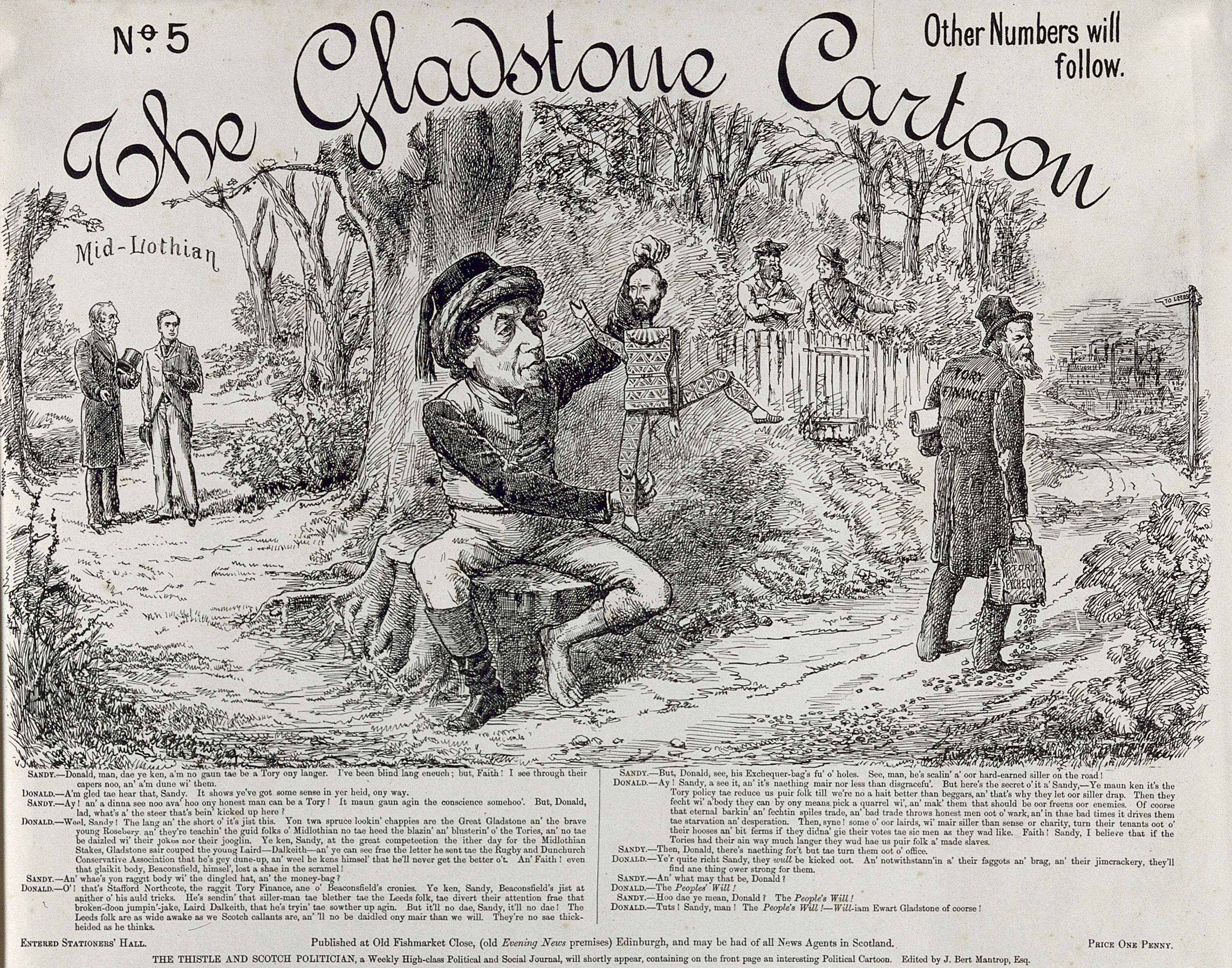 A political cartoon depicting the Midlothian campaign of 1879-80 - Benjamin Disraeli is playing with a puppet of Lord Dalkeith whilst Stafford Northcote is losing the money of the Tory exchequer. Gladstone and Rosebery are in the background. Iconographic Collections Keywords: Benjamin Disraeli; Politician; Cartoon; William Ewart Gladstone; J. Bert. Mantrop